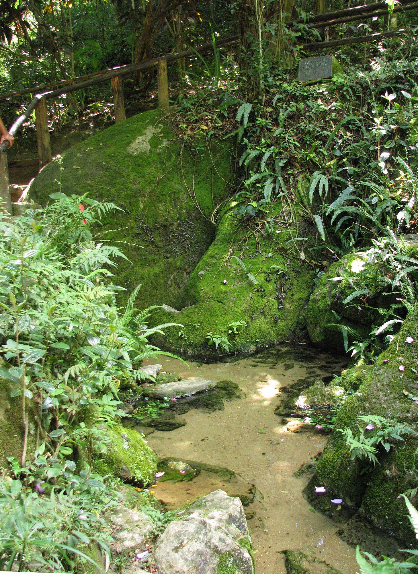 Description Nascente do Rio Tietê Source self-made Date 11 mar 2008 Author Daniel Santiago Permission See below.